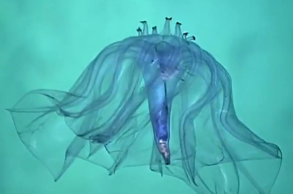 A swimming sea cucumber Pelagothuria natatrix observed in the abyss (443m) by the NOAA Okeanos Explorer mission "2017 American Samoa Expedition: Suesuega o le Moana o Amerika Samoa" near Howland Island.